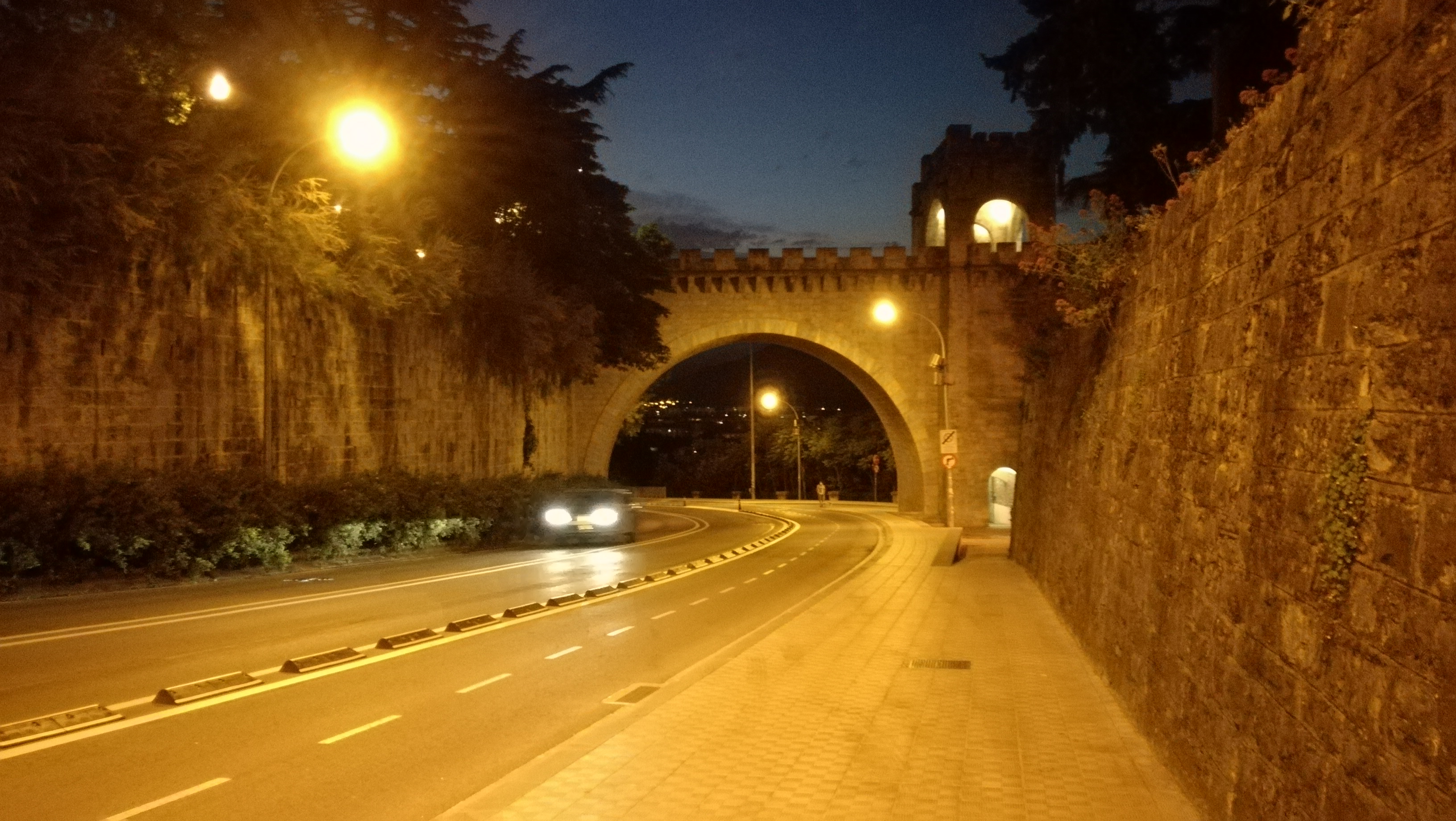 Iruña GIPUZKOA etorbidea